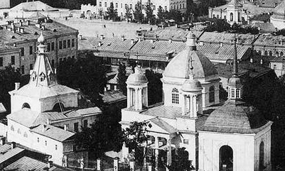 View of Saint Mykola Dobroho Church in Kyiv, Ukraine. The church was destroyed by order of the Soviet Government in 1935 as part of the anti-religious communist campaign. Only the bell tower (on the left of the photo) survives today.